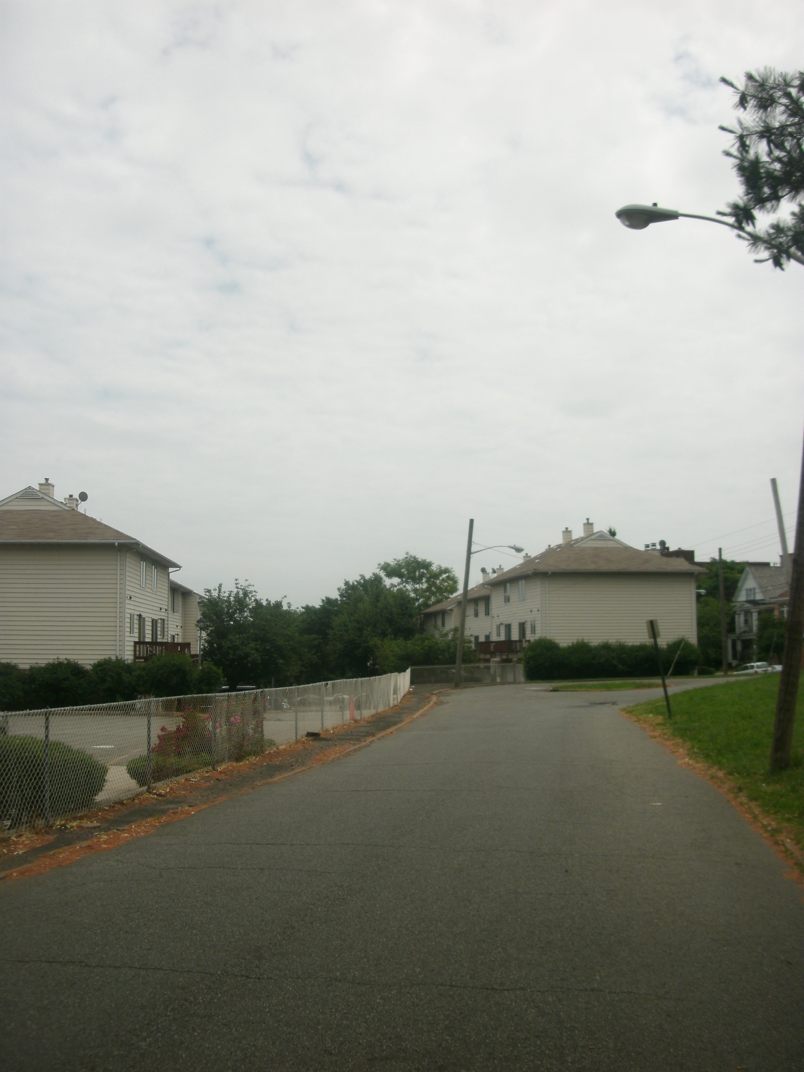 The site of the Passaic Park station of the Erie Railroad in Passaic, New Jersey.